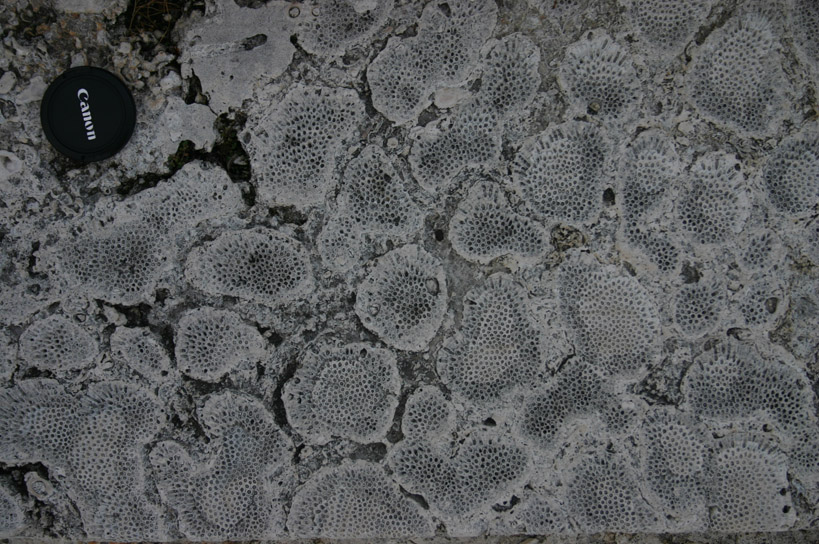 Photograph of cut slab of keystone at the Hurricane Monument in the Florida Keys. Lenscap 5.8 cm diameter. Taken by Jim Stuby (talk) 04:07, 22 March 2008 (UTC)